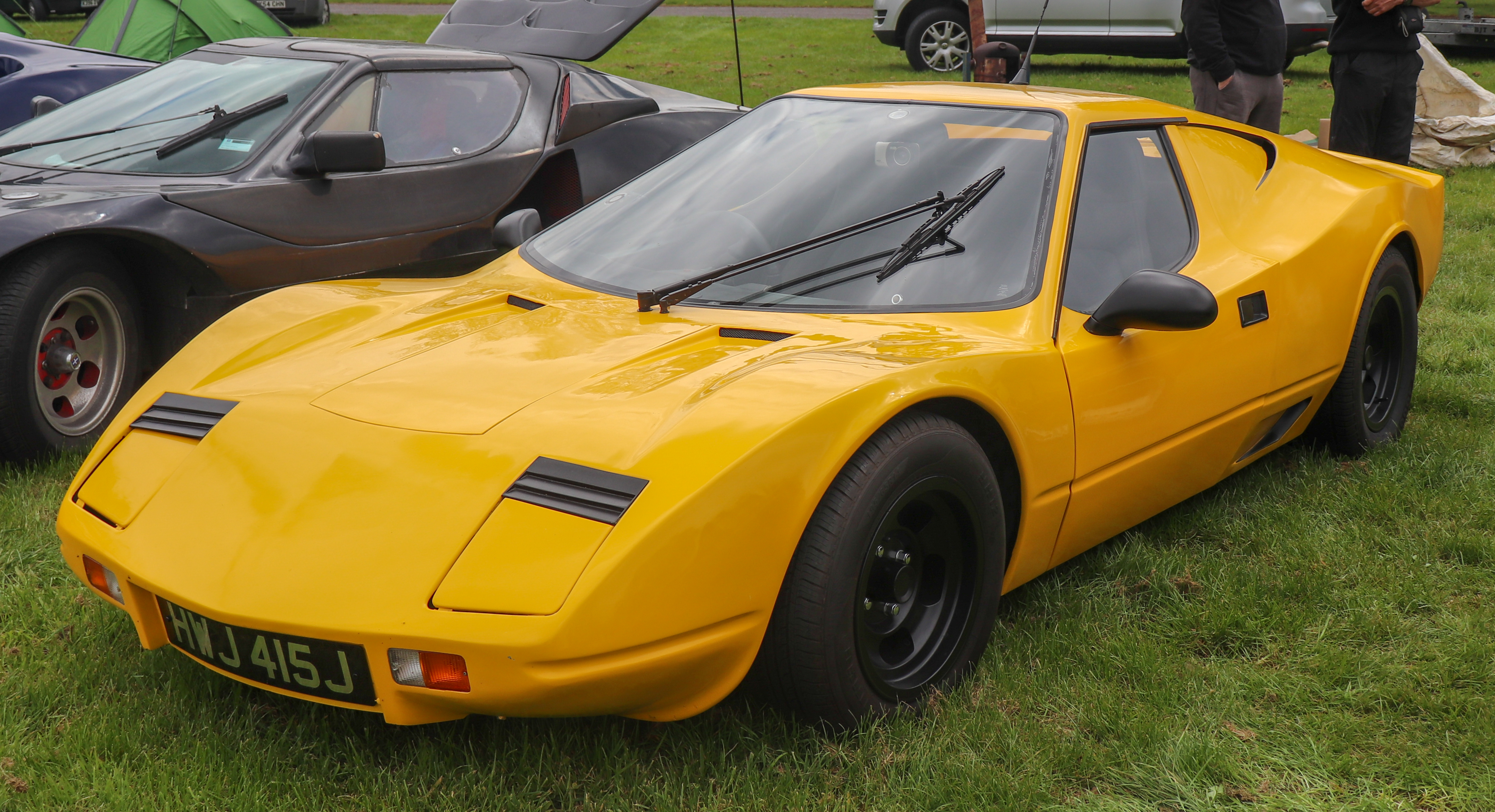 1971 (Donor) Avante Mk1 2.0 Front Taken at the Stoneleigh National Kit Car Motor Show 2019